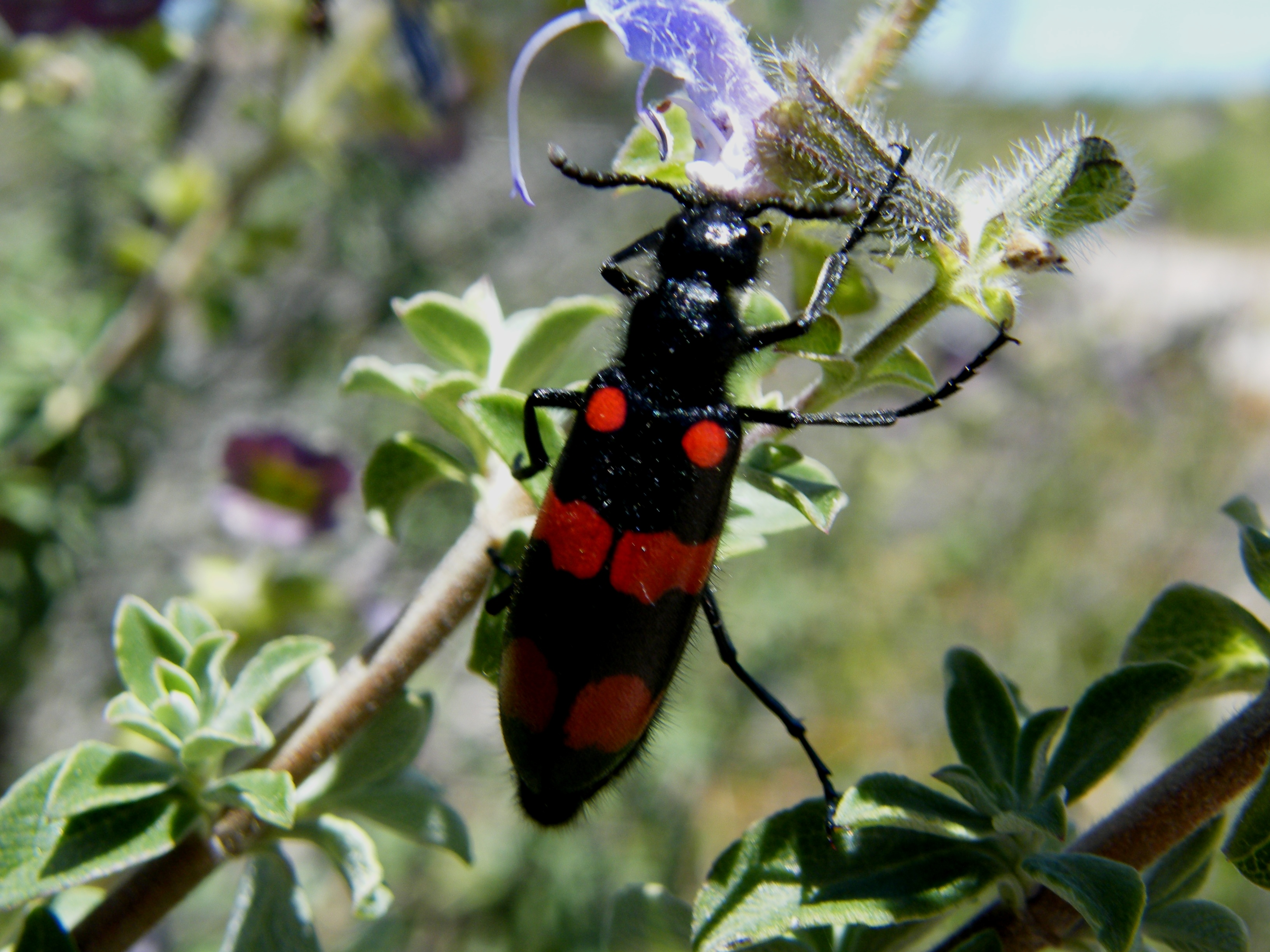 CMR Bean beetle